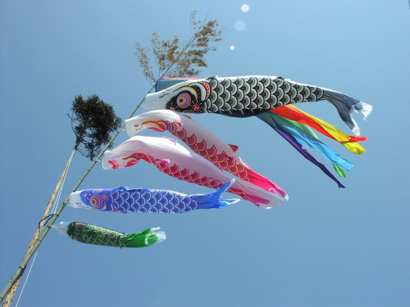 See this photo in Google MapsFlying Koi